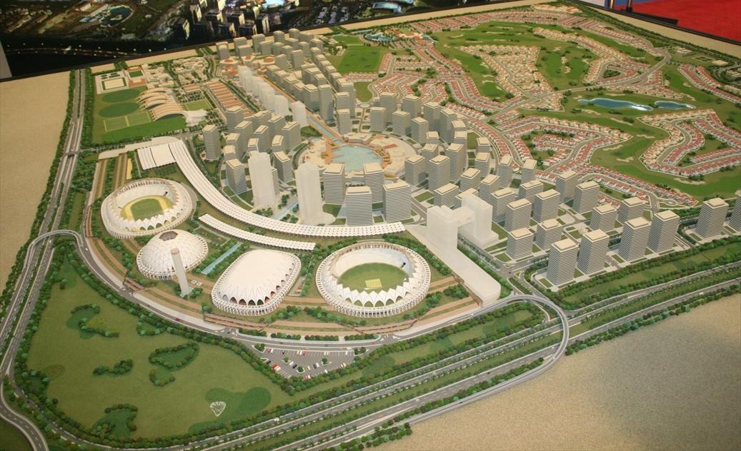 This is a photo showing a model of Dubai Sports City in Dubai, United Arab Emirates on 8 May 2007. The model was at the Cityscape Abu Dhabi 2007.